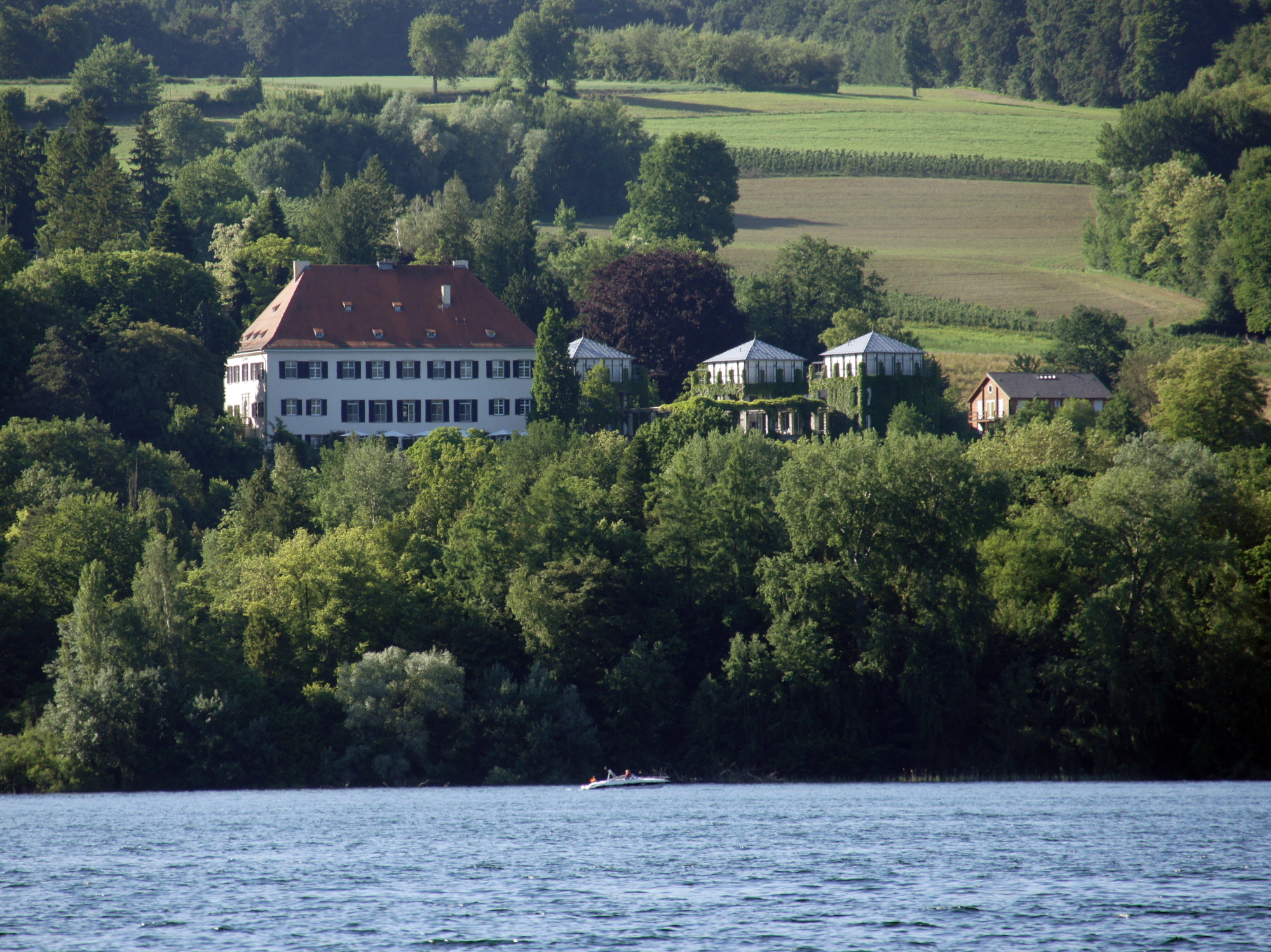 The palace of Marbach near Öhningen from the opposite side of the Lake of Constance